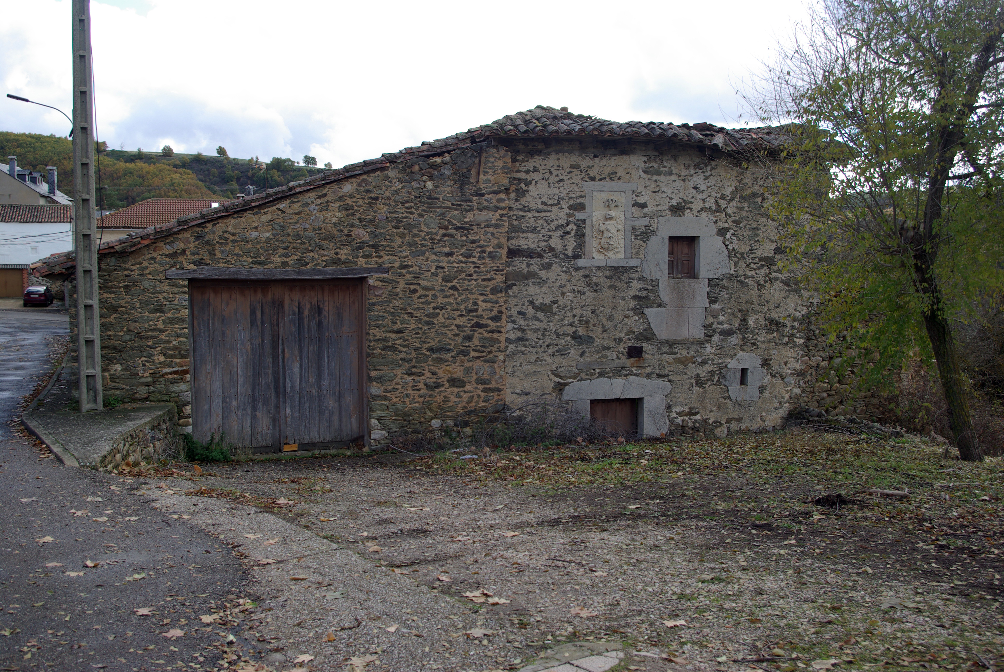 Escutcheon house in Riello (León, Spain).